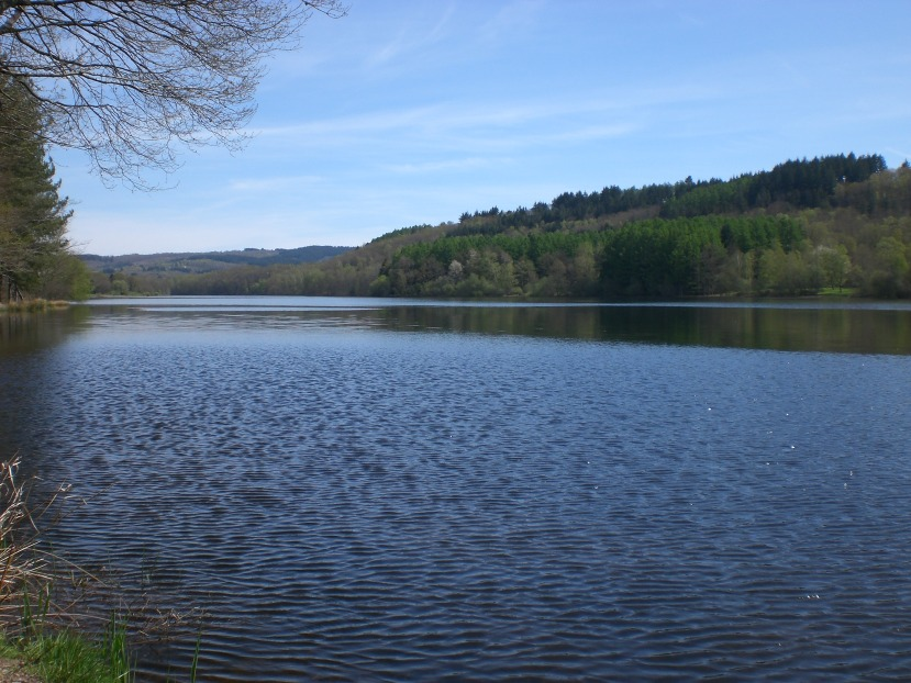 Lake Saint-Pardoux, 30km from Limoges, Haute-Vienne.